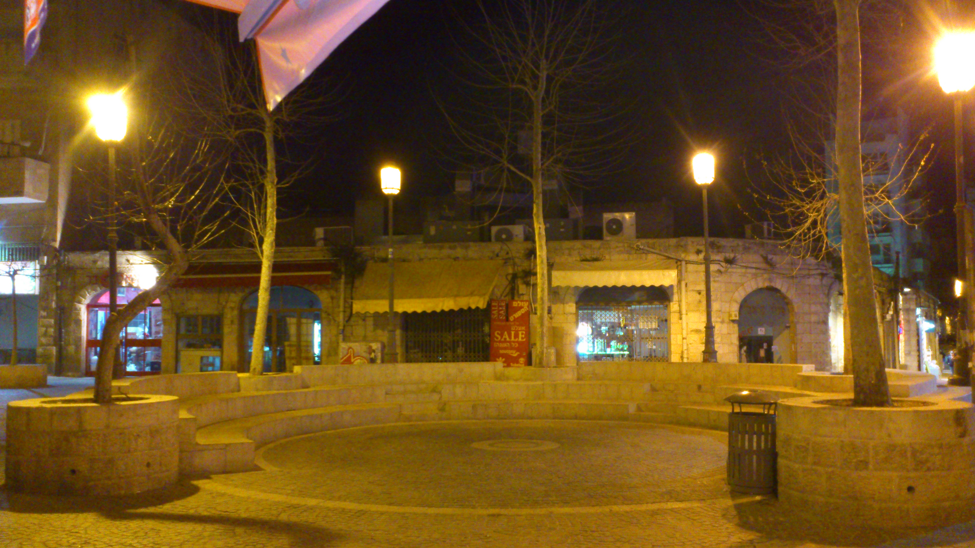 Even Israel